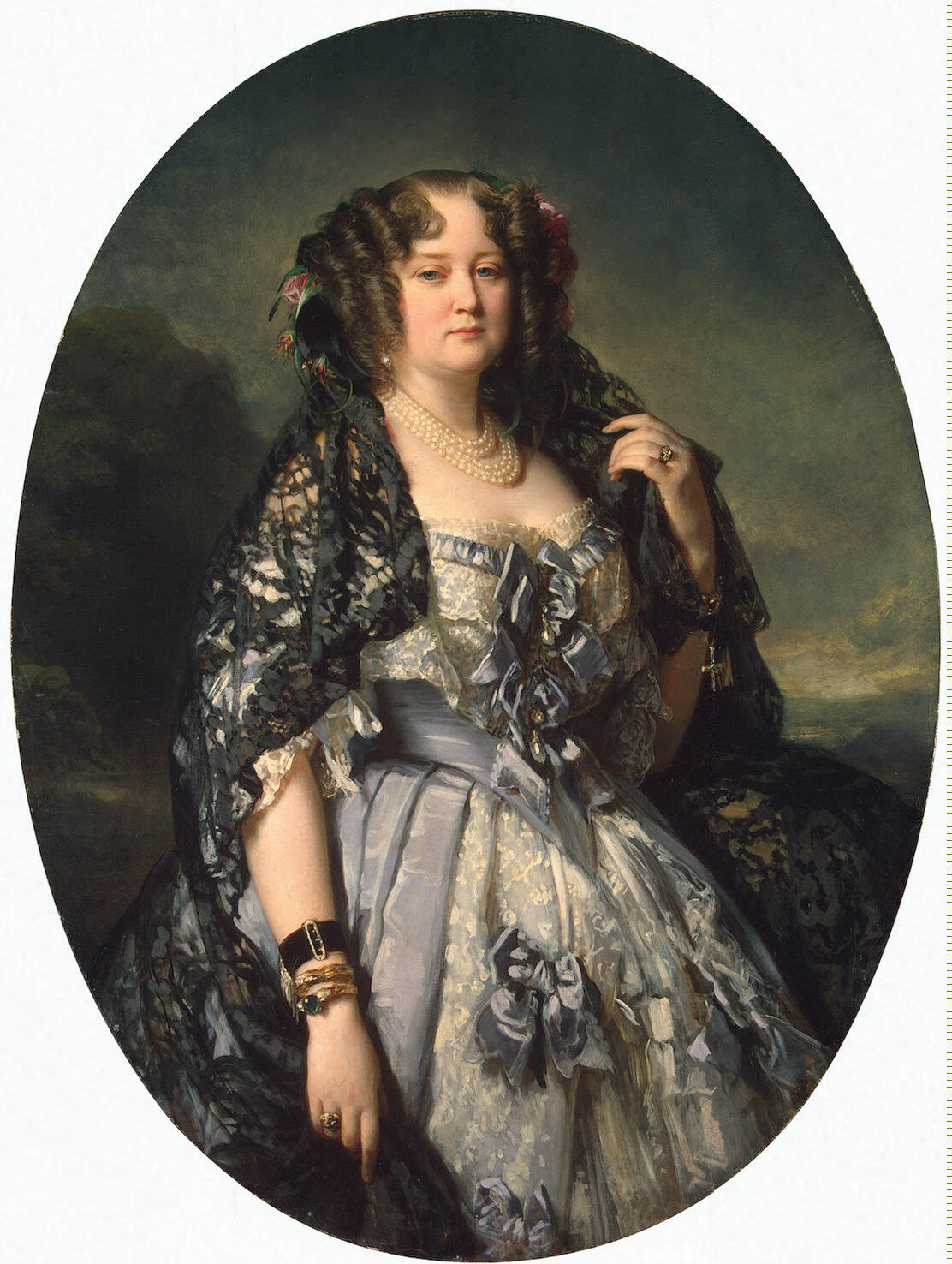 Portrait of Sophia Alexandrovna Radziwiłł